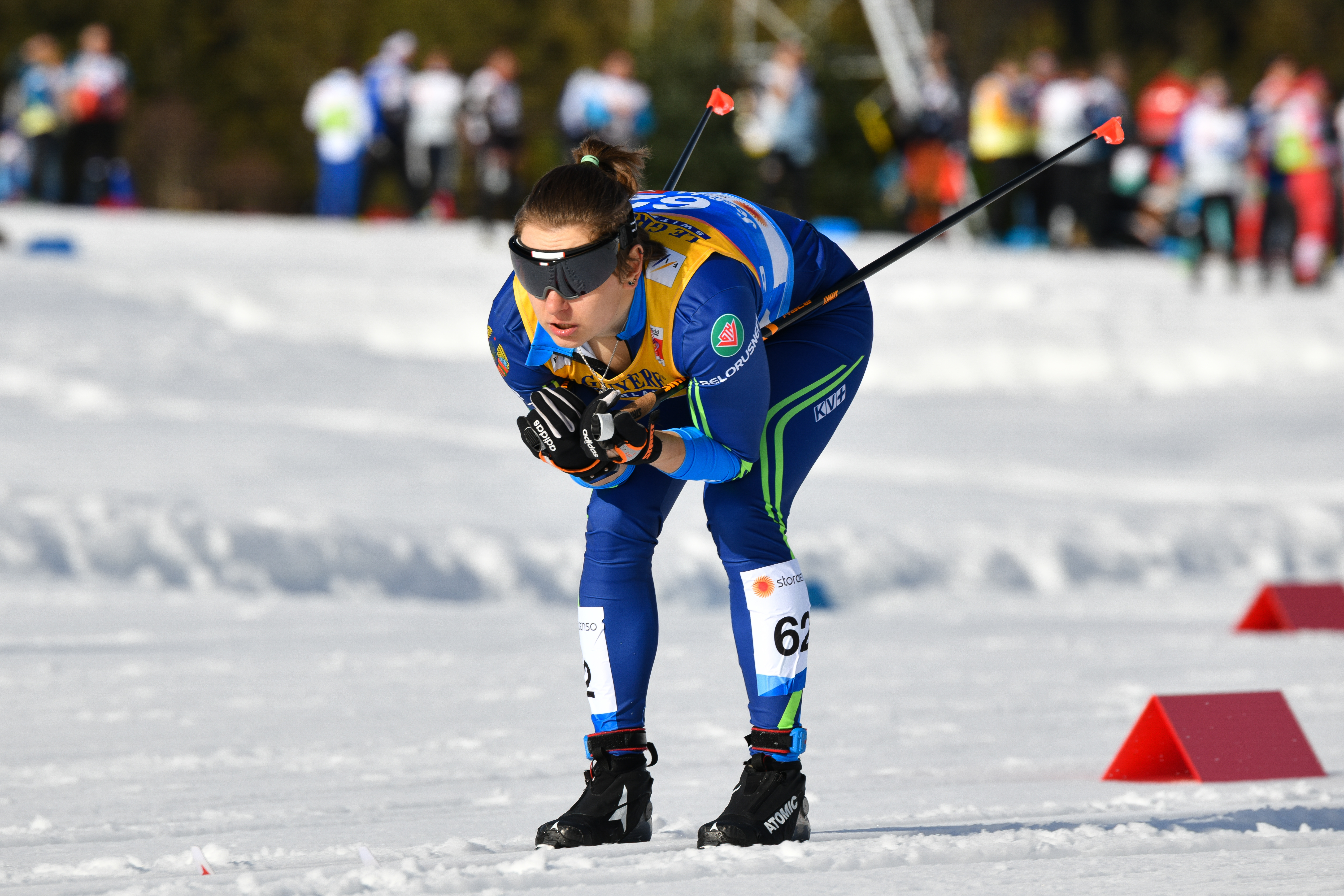 FIS Nordic World Ski Championships Seefeld 2019 - Ladies Cross Country 10km. Picture shows Anastasia Kirillova (BLR).